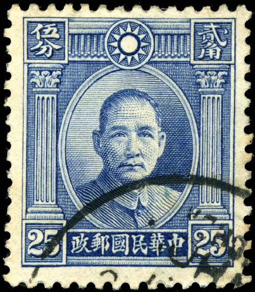 China 25-cent stamp of 1931